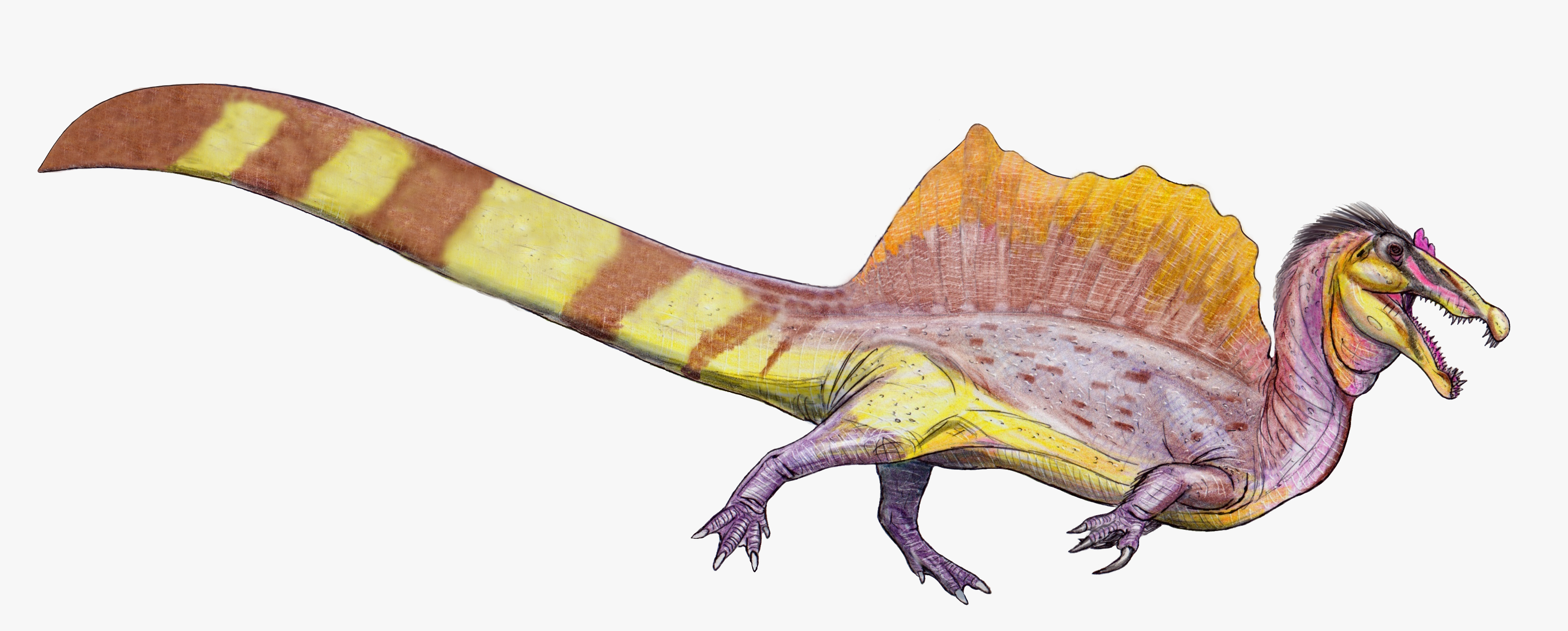 The new reconstruction of Spinosaurus aegyptiacus, after Ibrahim et al. (2014)[1] and Ibrahim et al. (2020) [2]